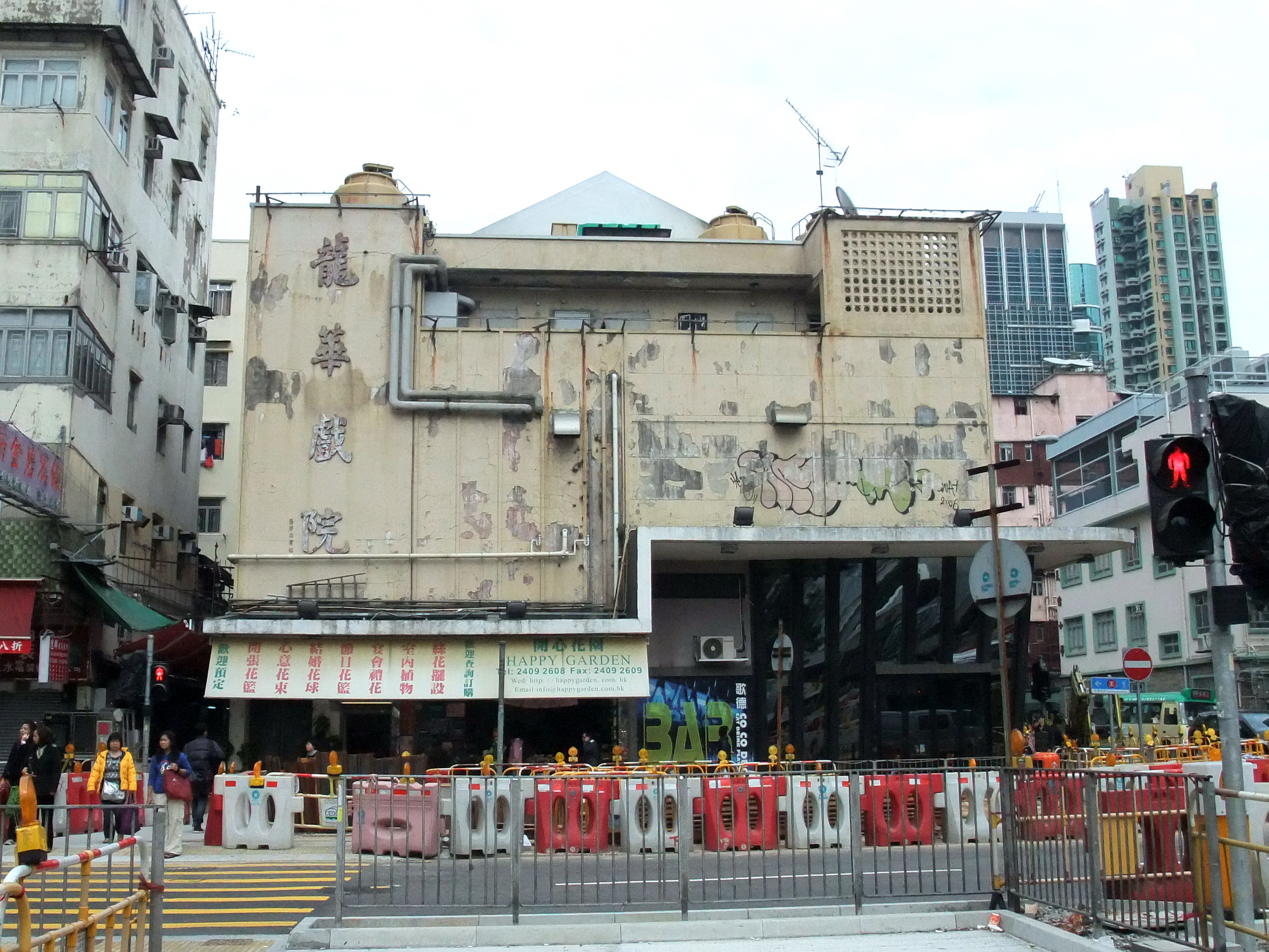 Lung Wah Theatre in Tsuen Wan, New Territories of Hong Kong. The theatre opened to business on 15th June 1962 and closed on 29th December 1996.